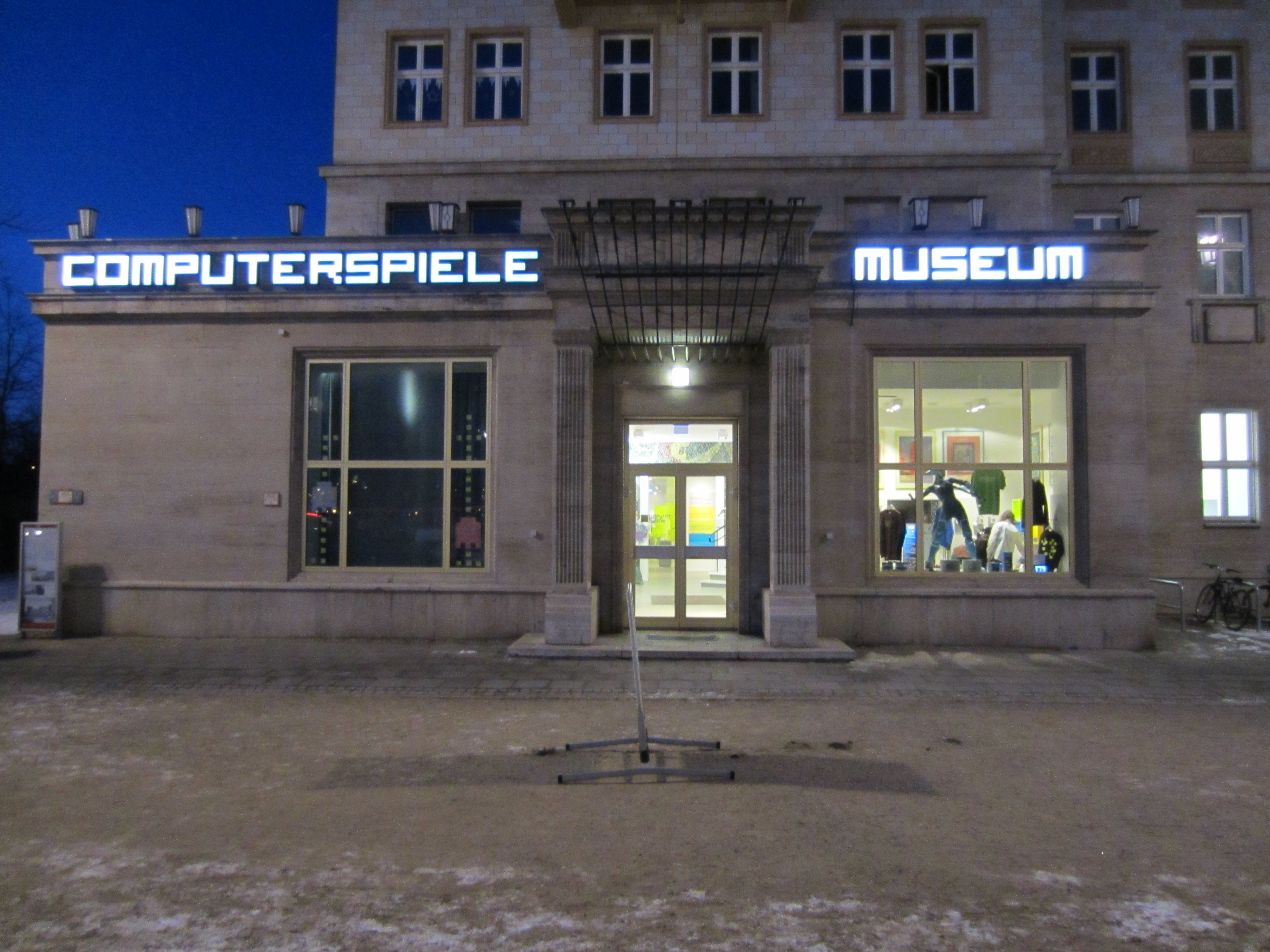 Computerspielemuseum (computer game museum) in Berlin at night.